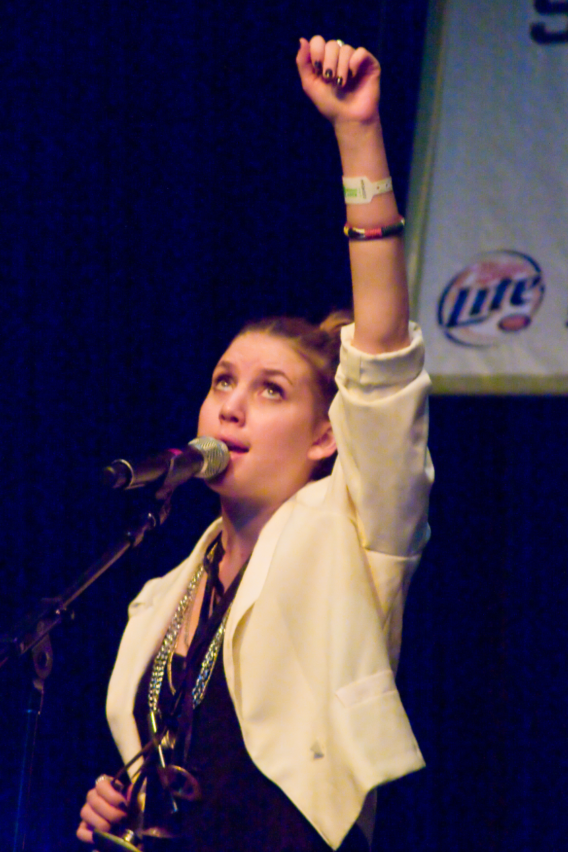 Lykke Li at SXSW08 Day Stage.